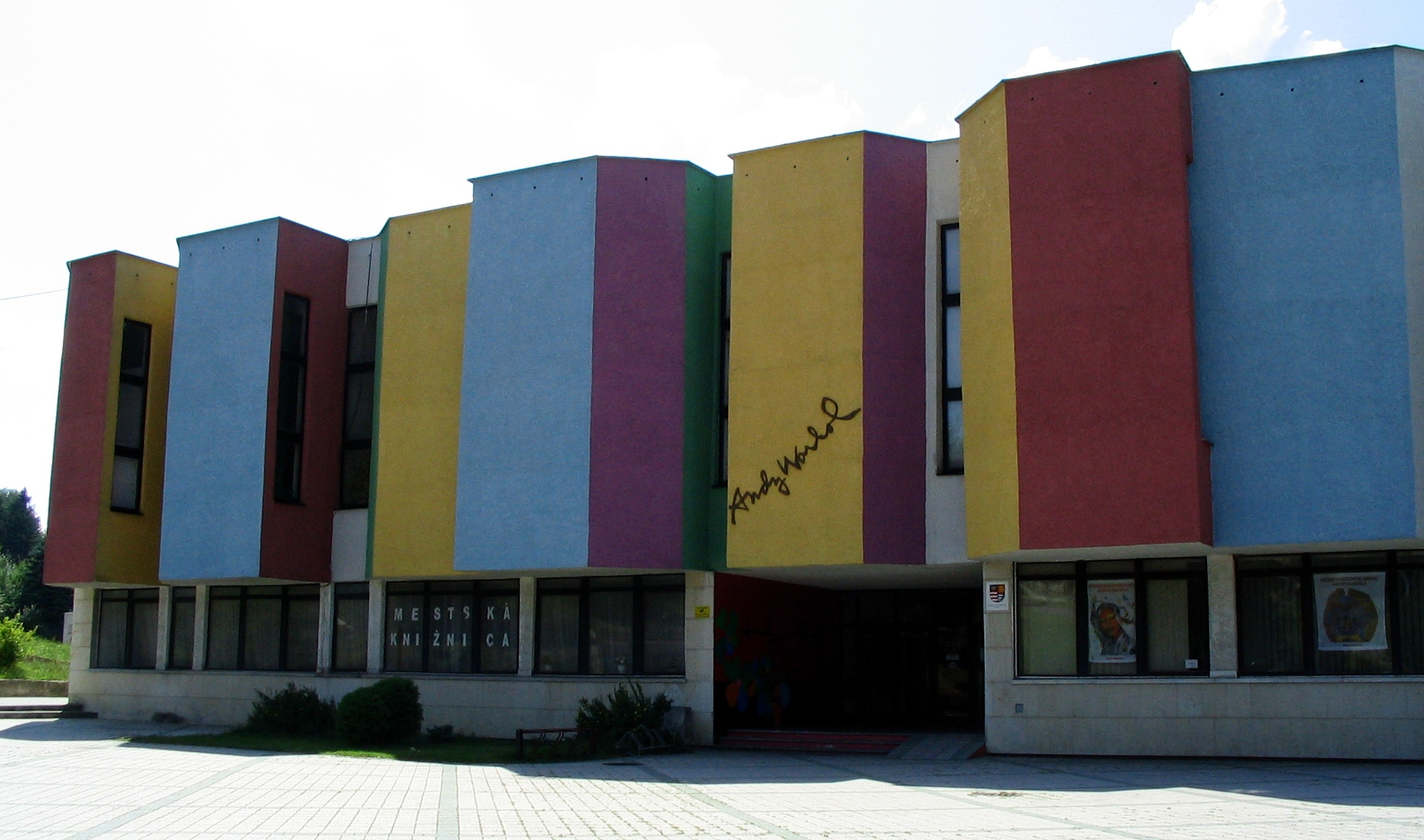 Museum of Modern Art (Muzeum Moderniho Umieni) in Medzialborce, Slovakia